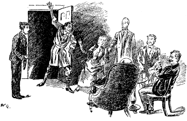 George Grossmith. Diary of a Nobody f.p. Tait & Sons N.Y. 1892.